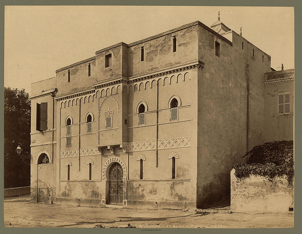 House of an Arab judge or chief (caid), Mostaganem, Algeria